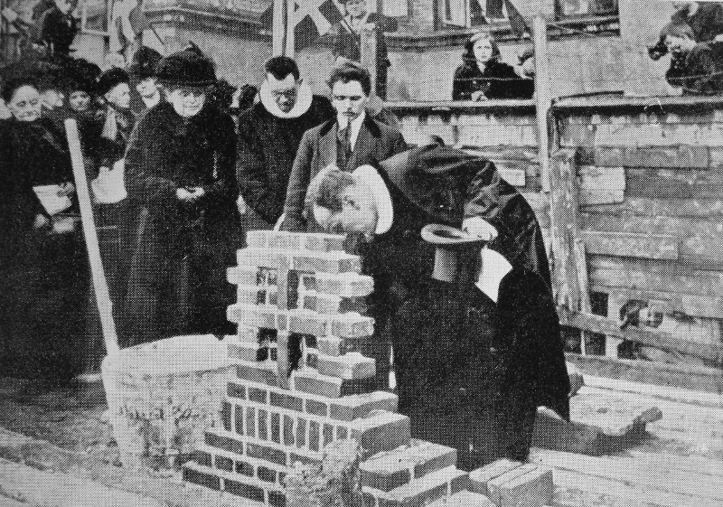 Construction of Anna Church in Copenhagen, Denmark - the foundation stone is laid